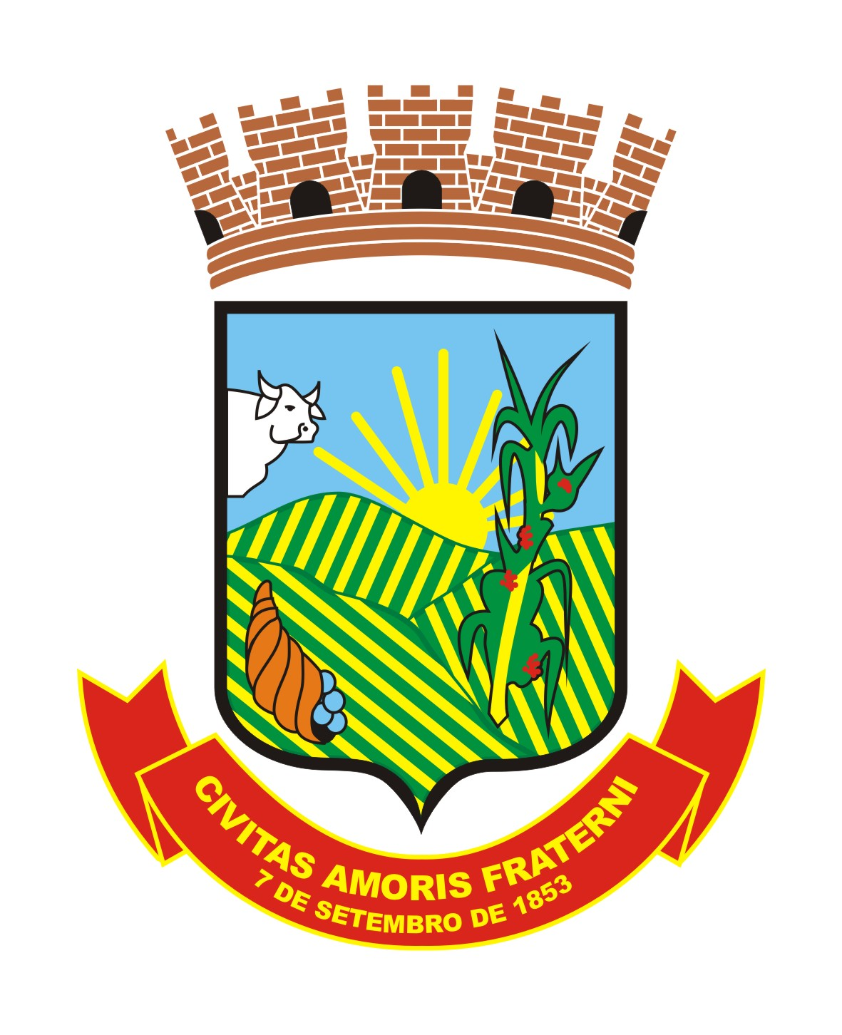 Brasão of Teófilo Otoni city, Brazil